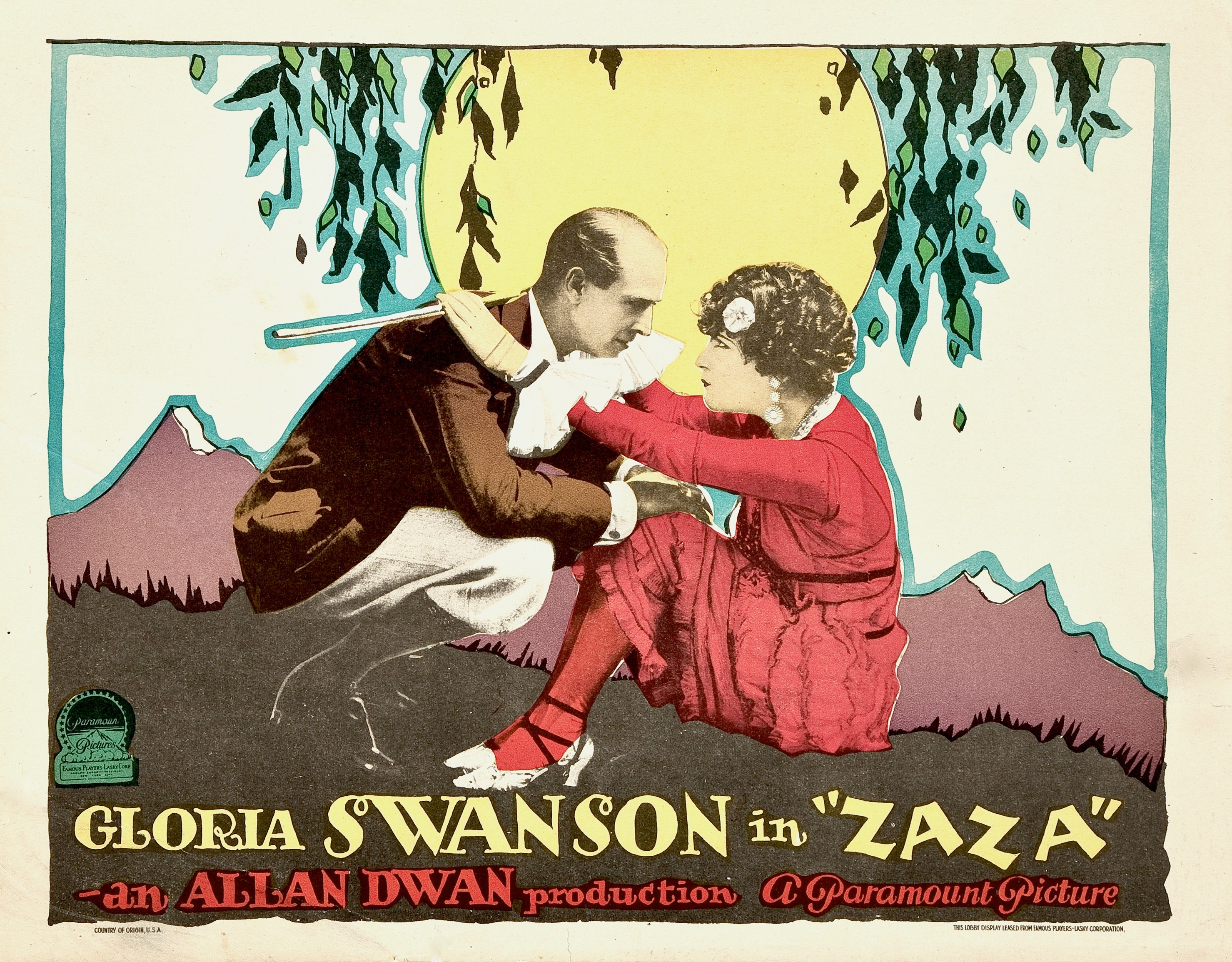 This is a lobby card for the American romantic drama film Zaza (1923). Originally published pre 1978 without copyright notice, the image is public domain in the United States.